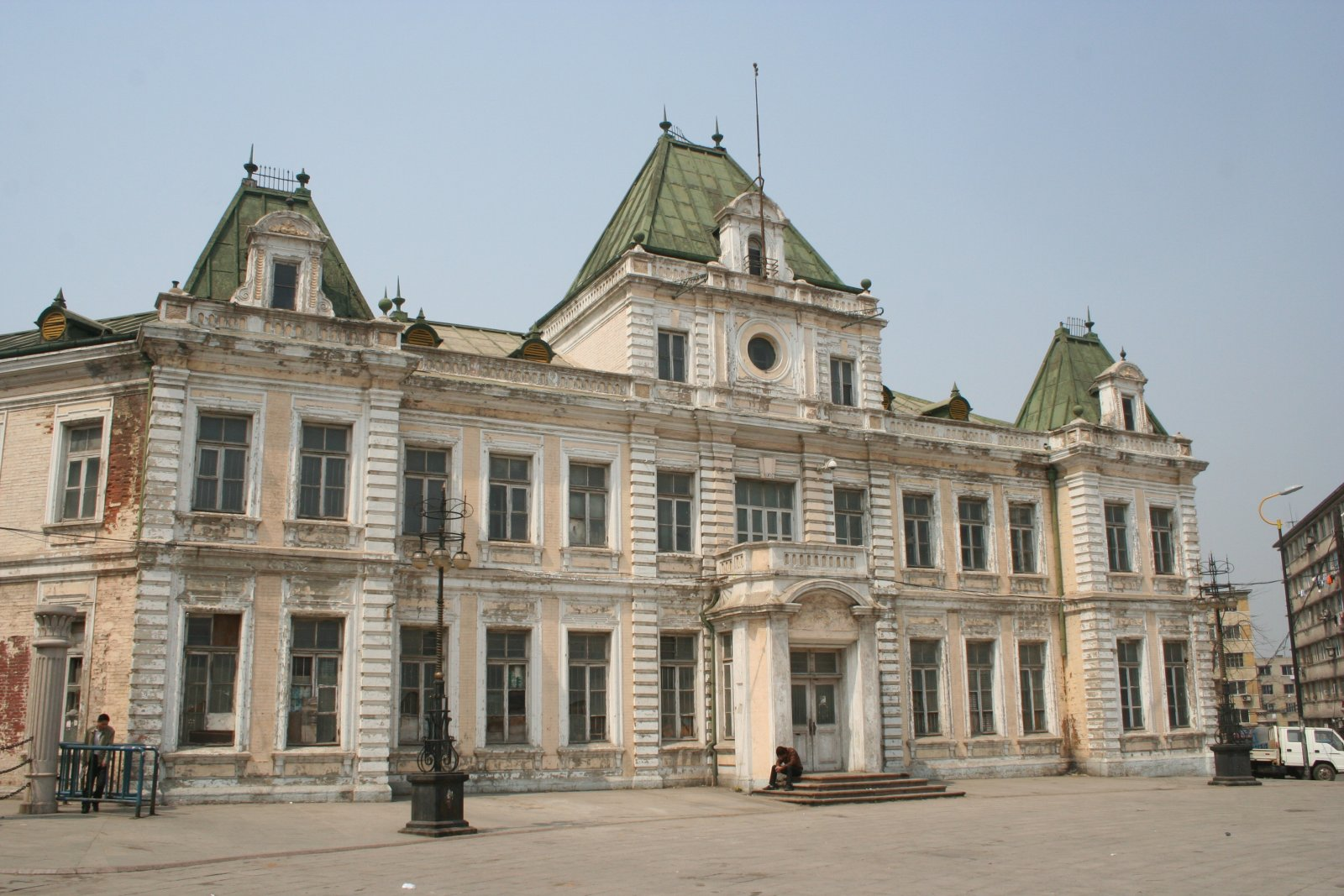 Russian administrative building in Dalny City (now Dalian, PRC). Duilt in 1900